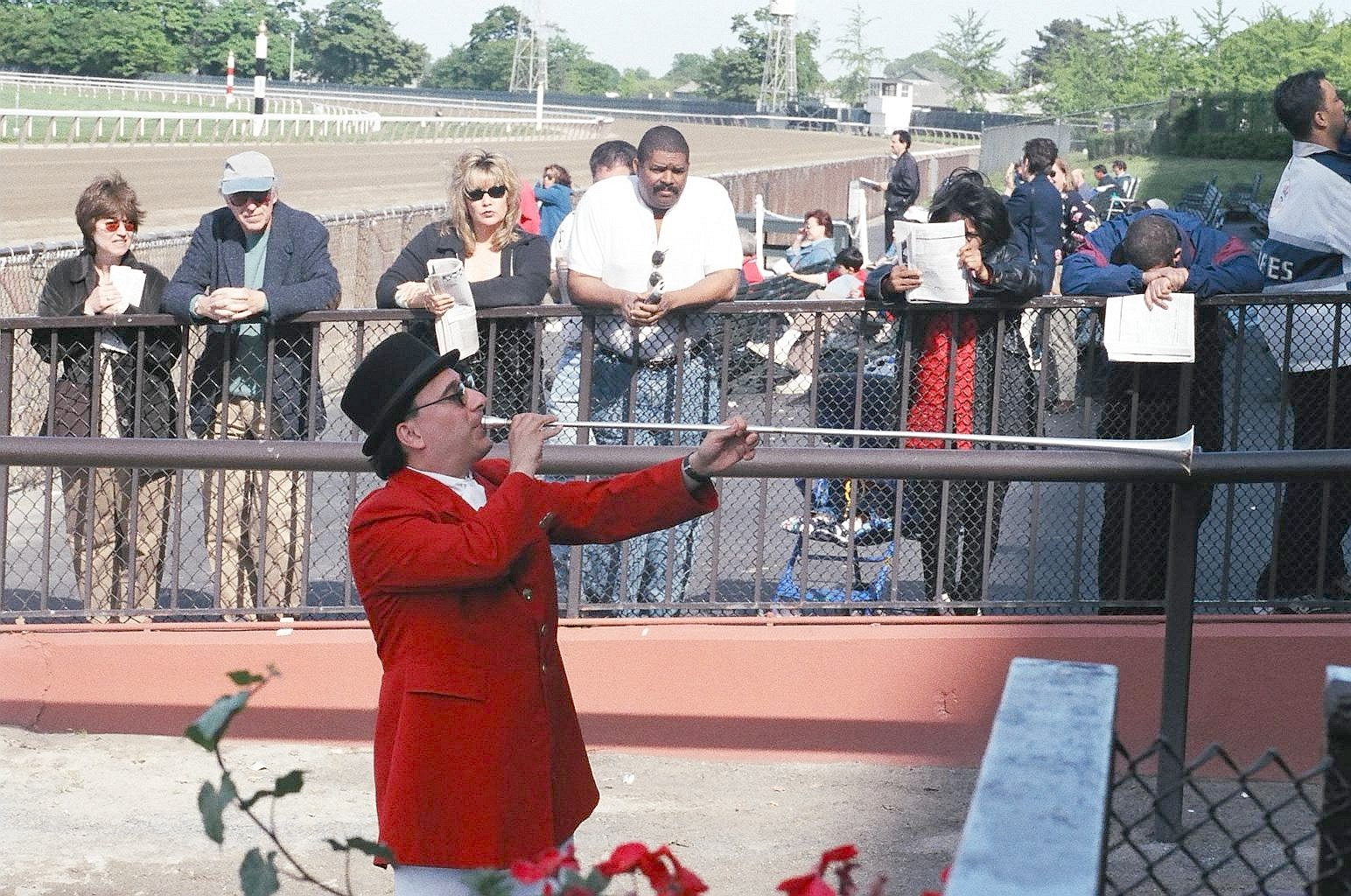 Belmont Park bugler Sam Grossman plays "Call to the Post," heralding the horses as they enter the track before a race. Photo by Dave Mock PD-user